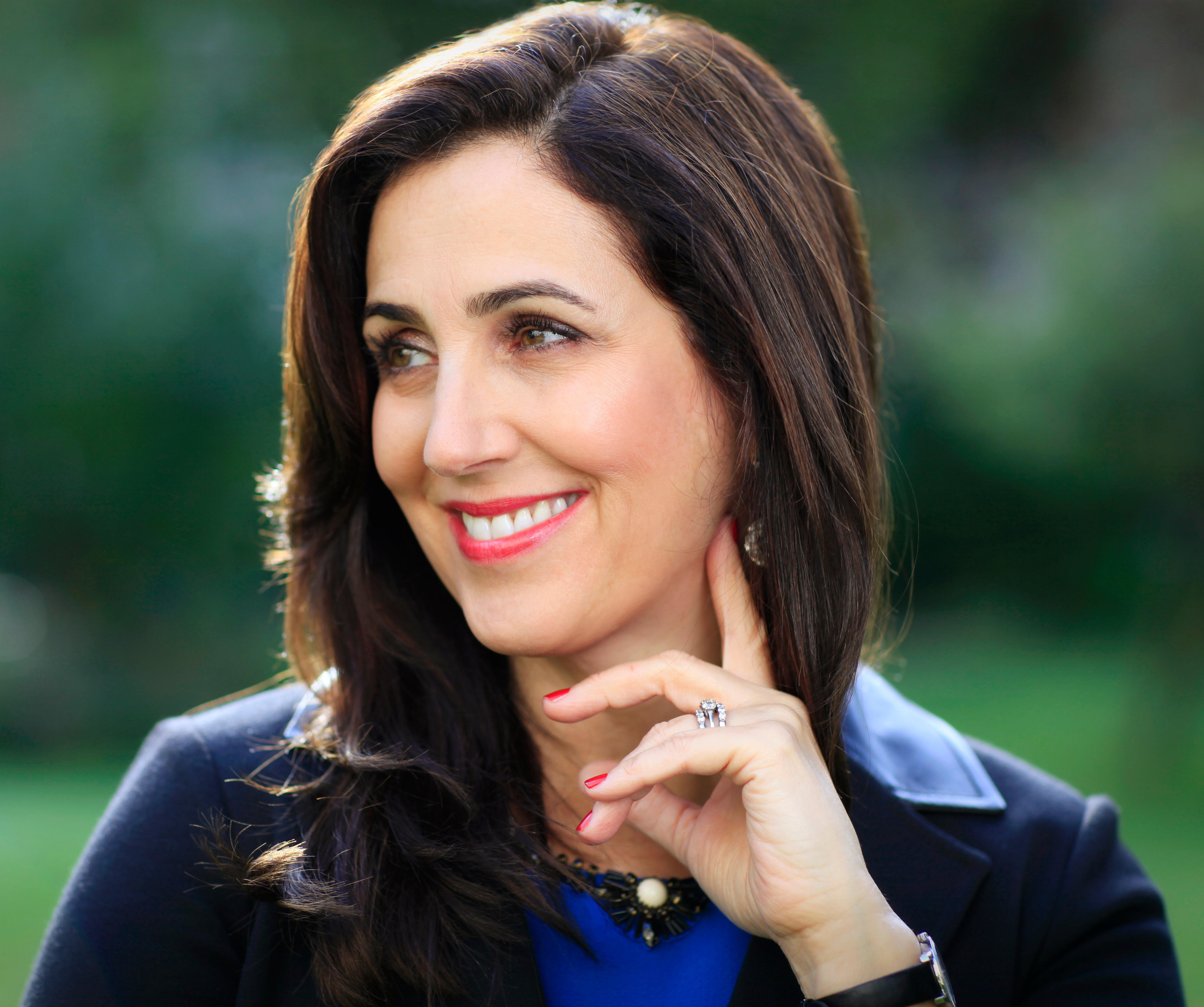 Baroness Shields OBE